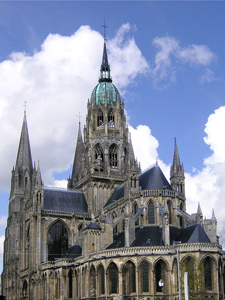 France, Bayeux Cathedral from the East